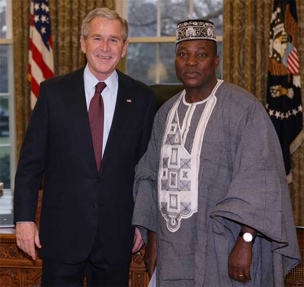 President George W. Bush meets with Ambassador Paramanga Ernest Yonli of the Republic of Burkina Faso, Tuesday, Jan. 22, 2008 in the Oval Office at the White House, during the credentials ceremony for newly appointed ambassadors to Washington, DC.